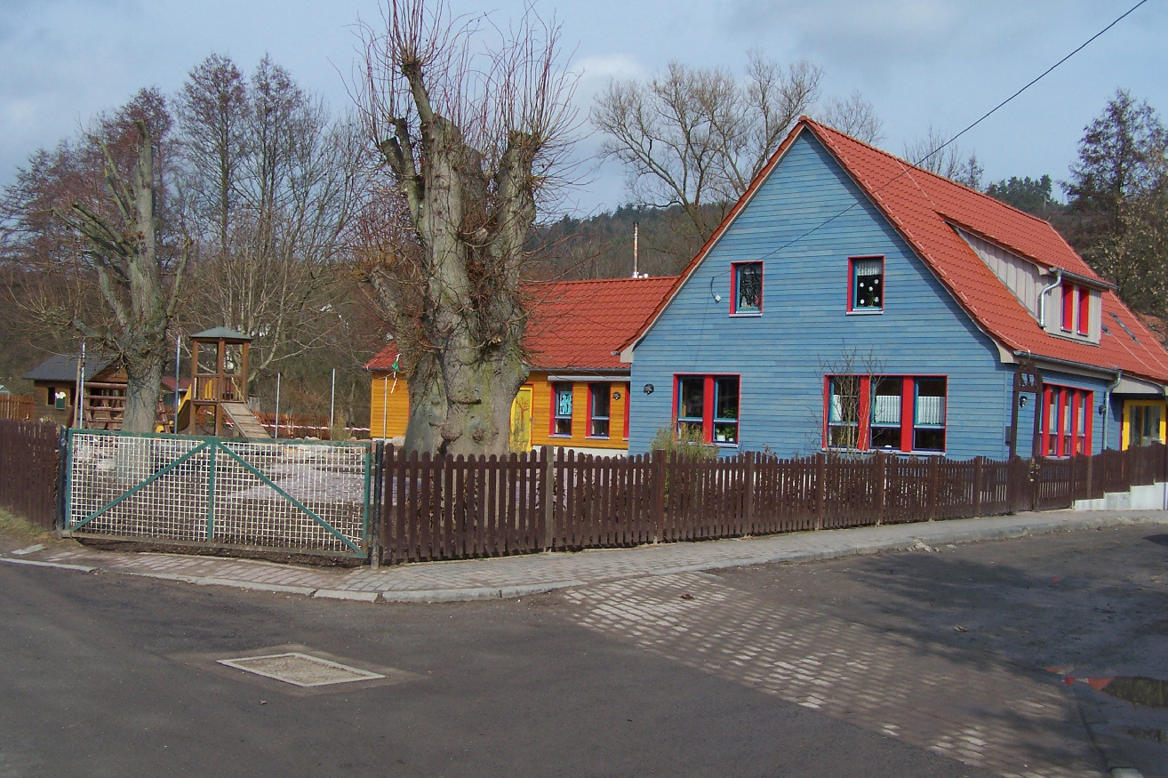 The Kindergarden in Ifta.